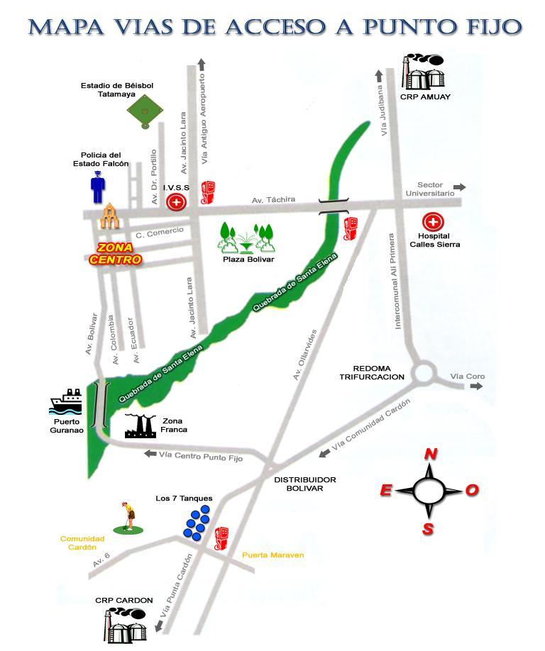 Access roads to Punto Fijo city.